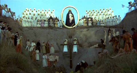 Screenshot from Il Decameron